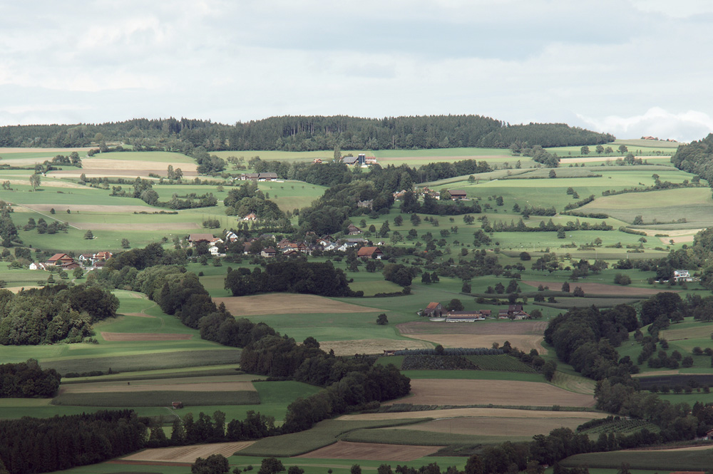 Lieli